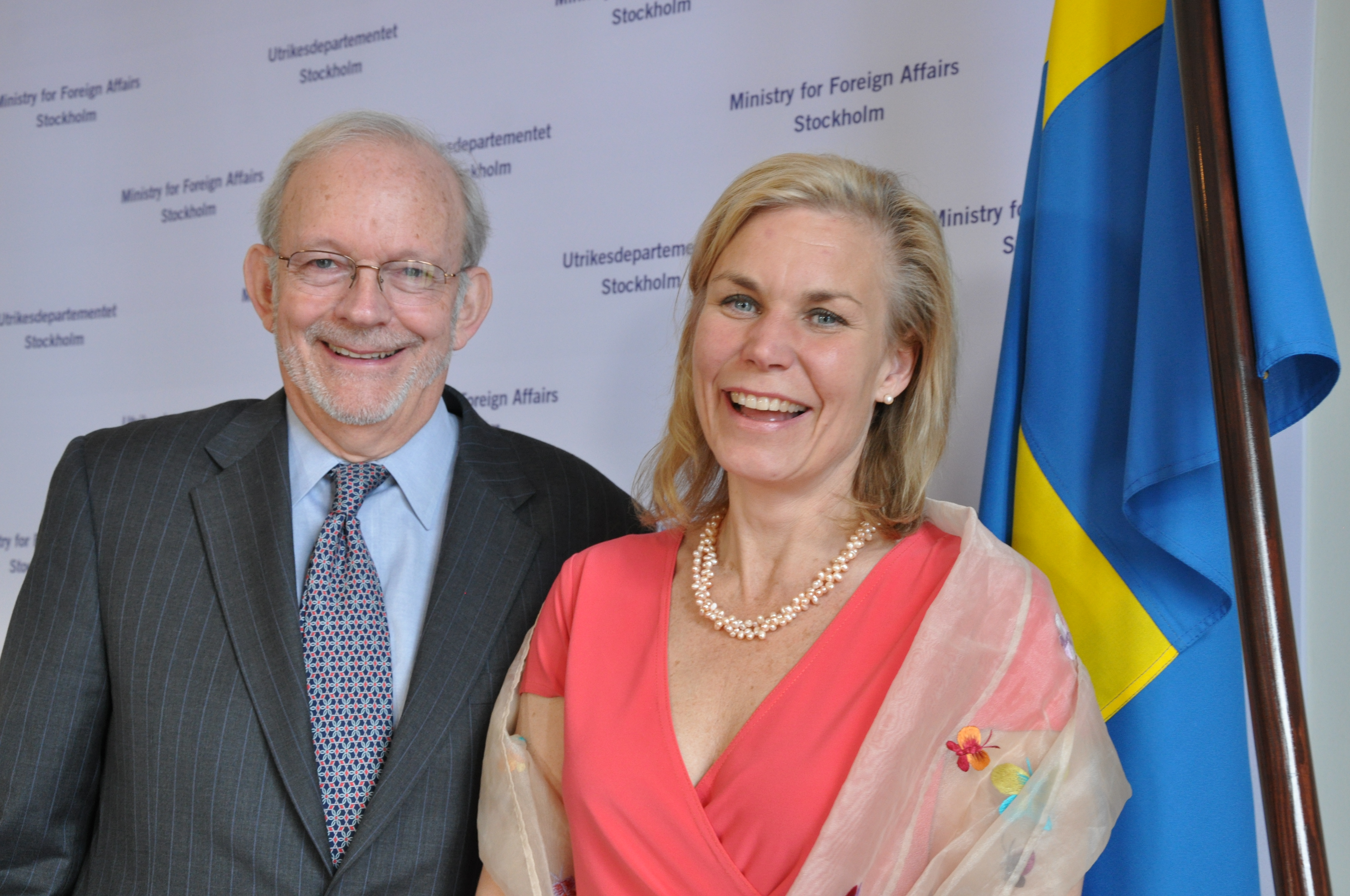 at a meeting at the Foreign Ministry, Stockholm, Sweden